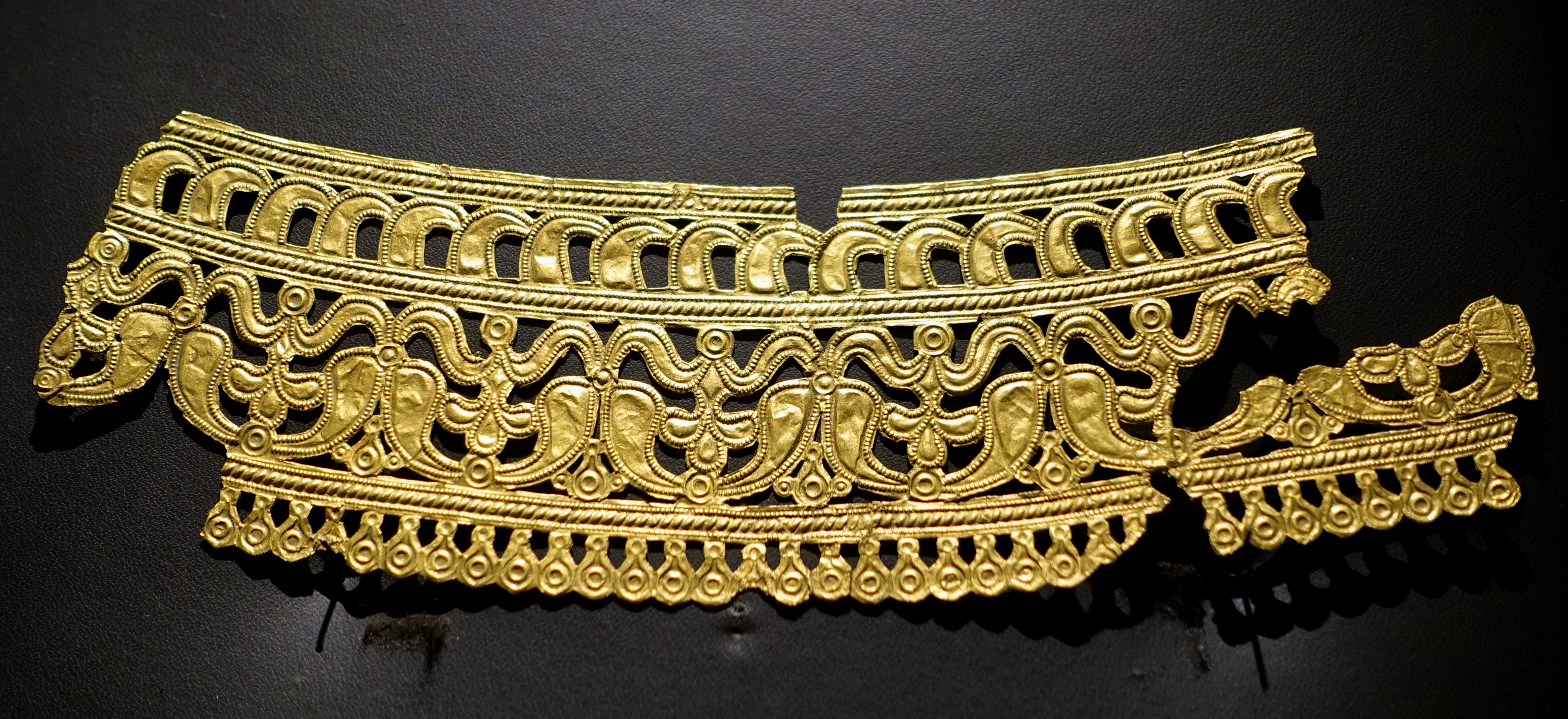 Exhibit in the Cinquantenaire Museum - Brussels, Belgium.